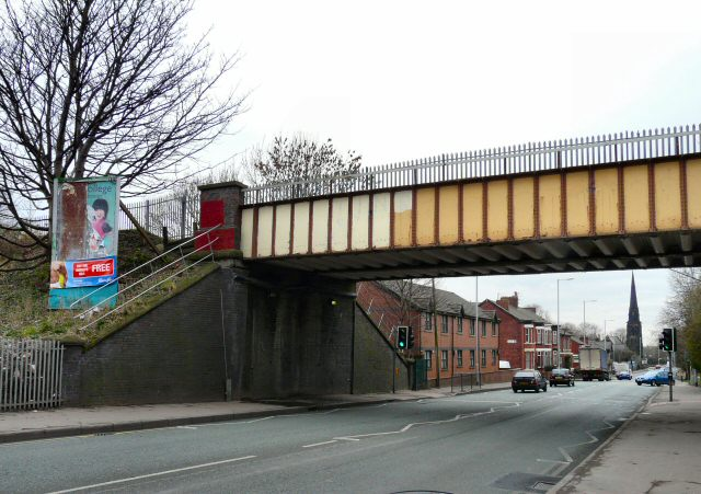 Hyde Road. The A57 into Manchester. The railway bridge carried a now abandoned freight line from Fairfield to Trafford Park that bypassed Piccadilly. In the distance is Brookfield Church 1178652.